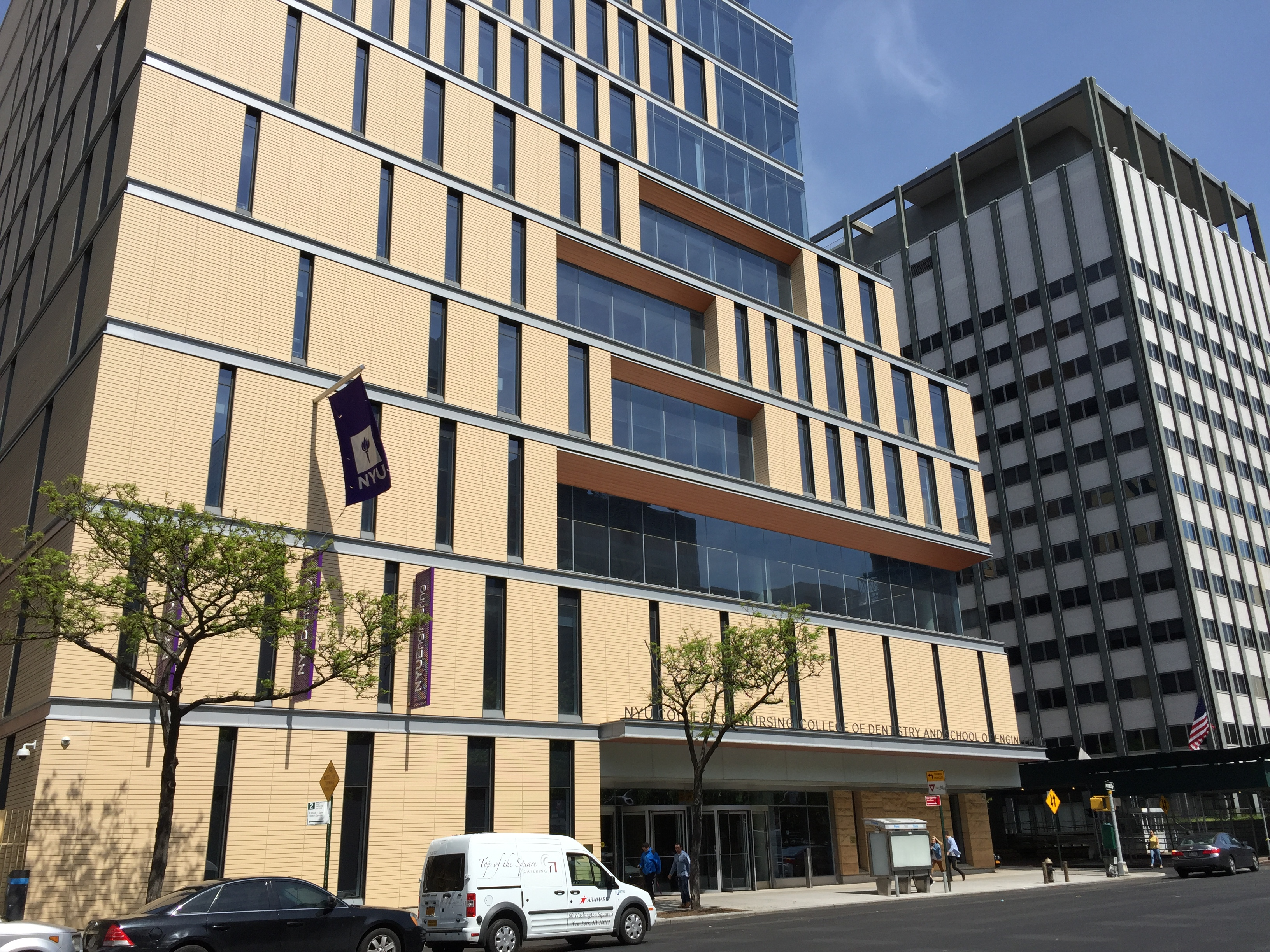 NYU Bioengineering building on 433 First Avenue in New York City.